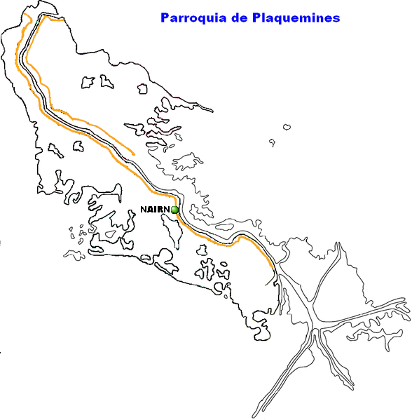 Nairn Map Locator